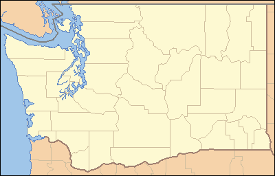 Locator Map of Washington, United States